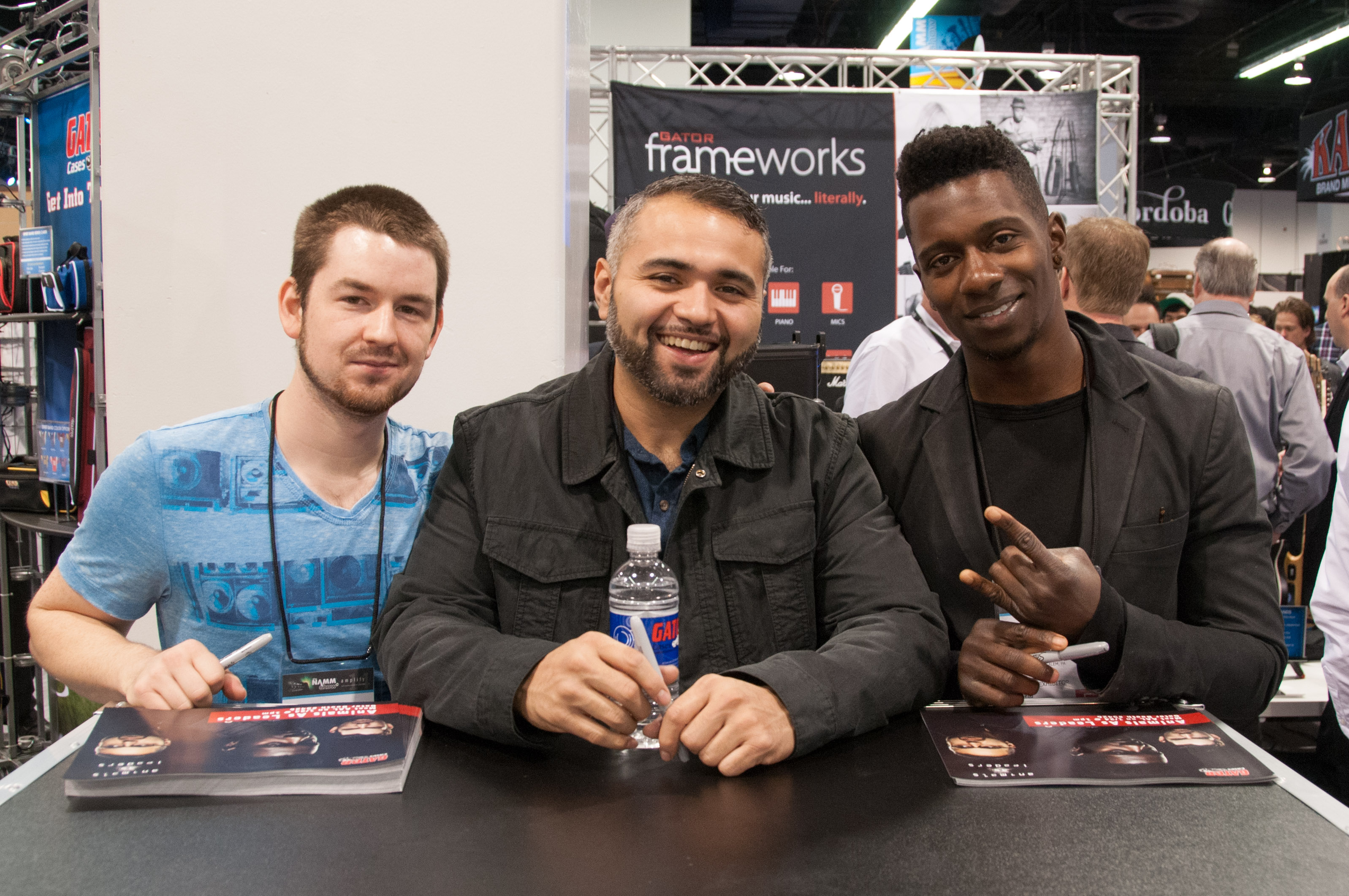 I met these guys at the Gator booth. If you haven't heard them yet, YOU NEED TO.